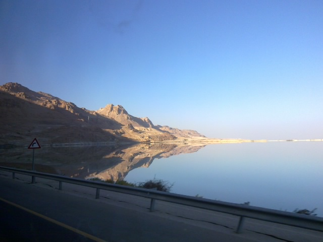 Dead Sea